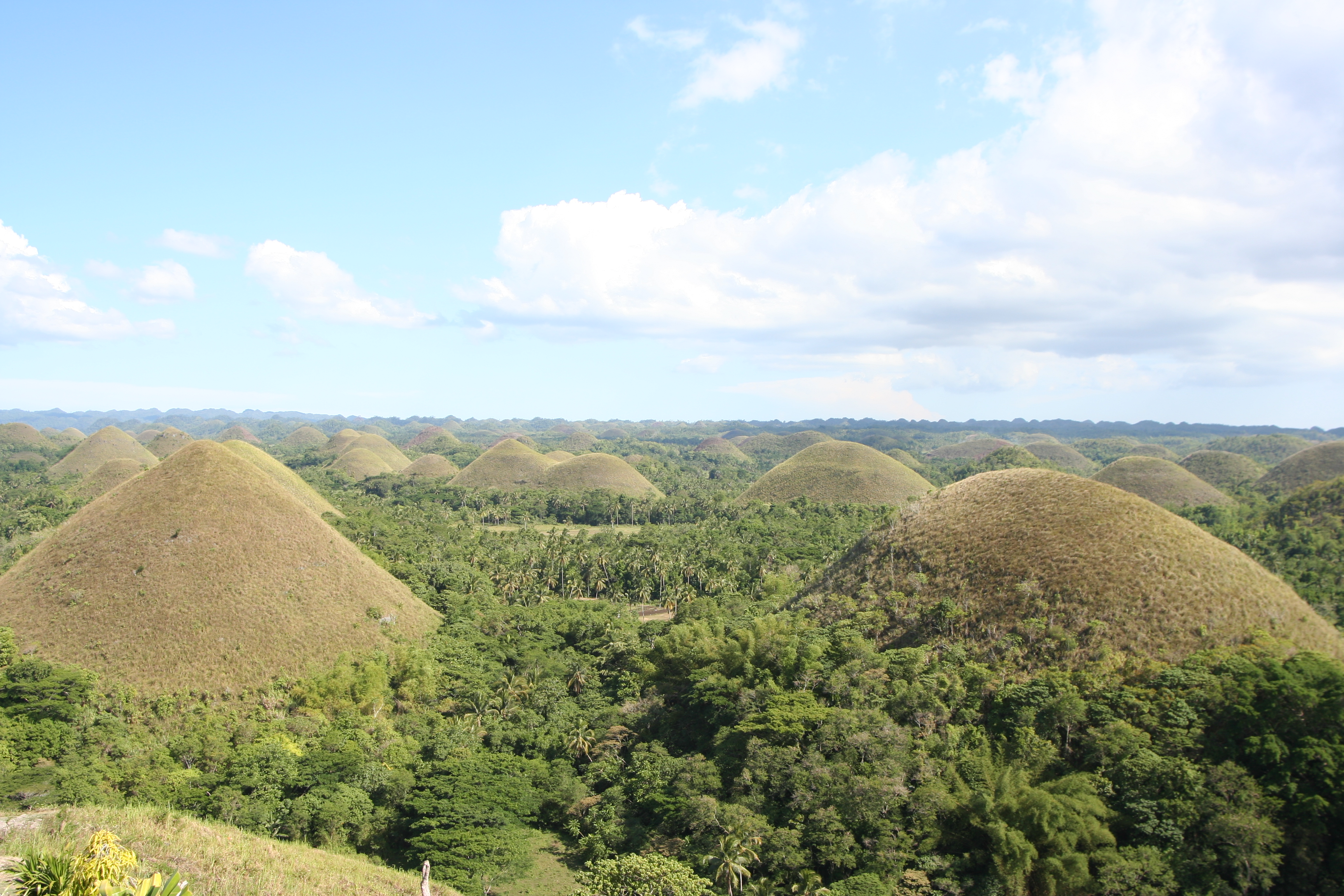 View on the willy wonka Chocolate Hills from the Chocolate Hills Complex, Carmen, Bohol Island and Province, The Philippines. These hills become brown in summer.